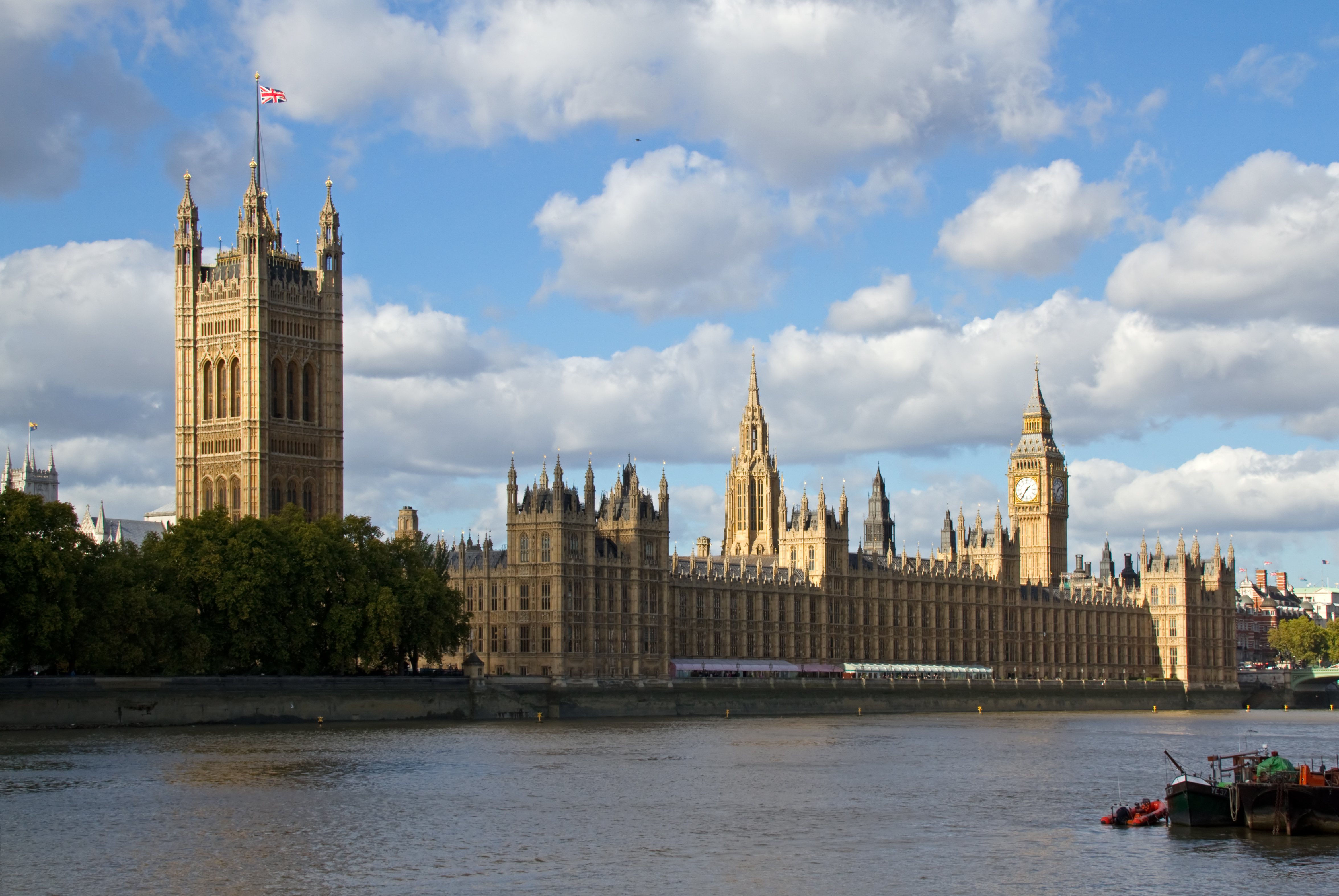 Houses of Parliament